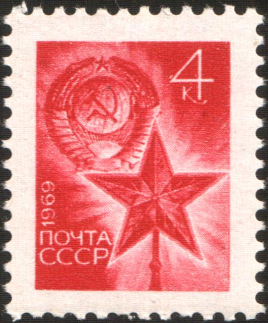 USSR stampː Kremlin Red Star and USSR Arms. Seriesː The Definitive Coil Stamp for Stamp Vending Machine